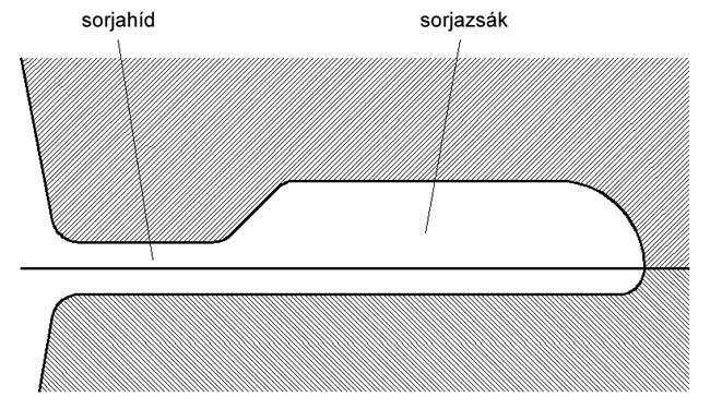 A typical gutter